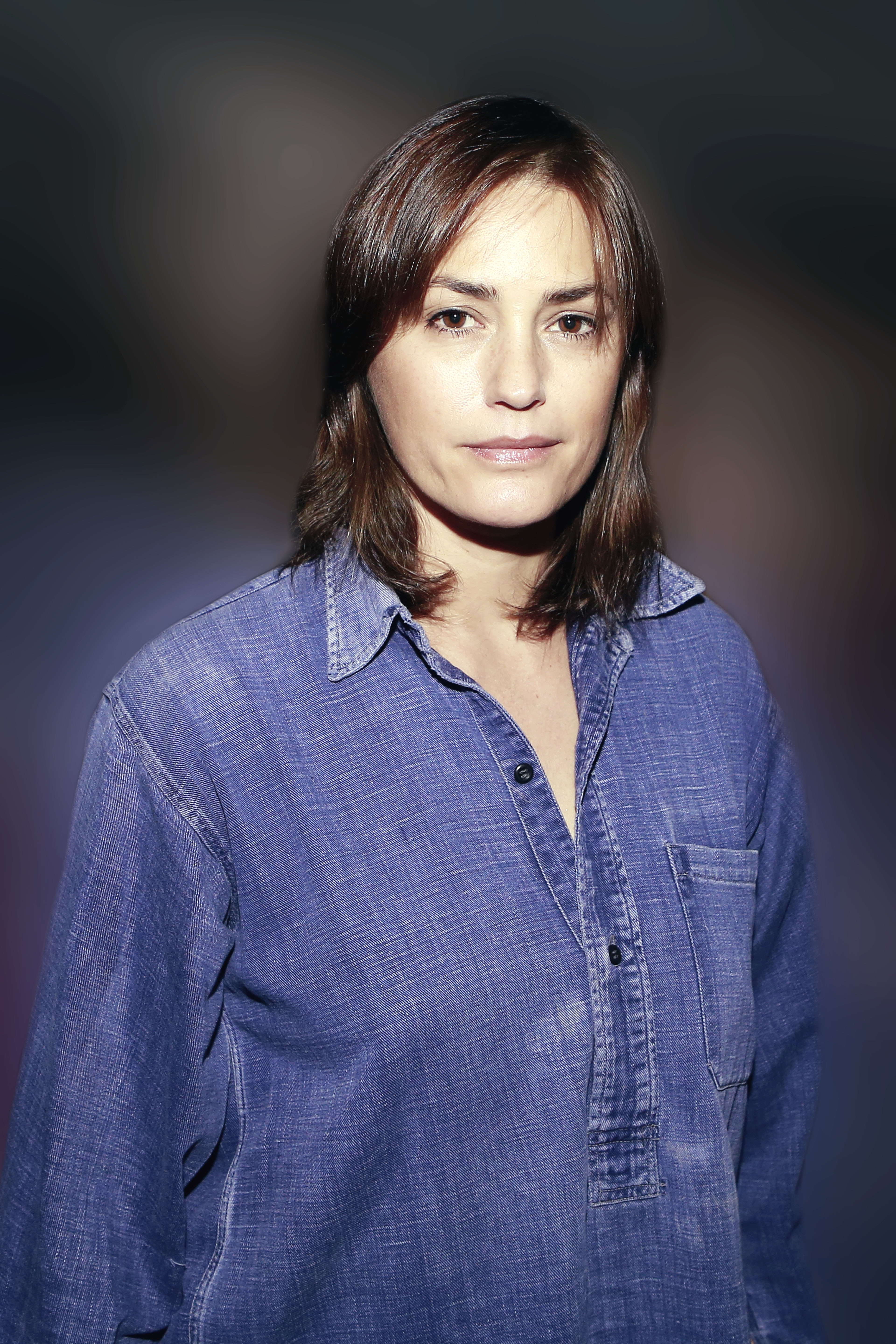 Yasmin Le Bon portrait by Walterlan Papetti